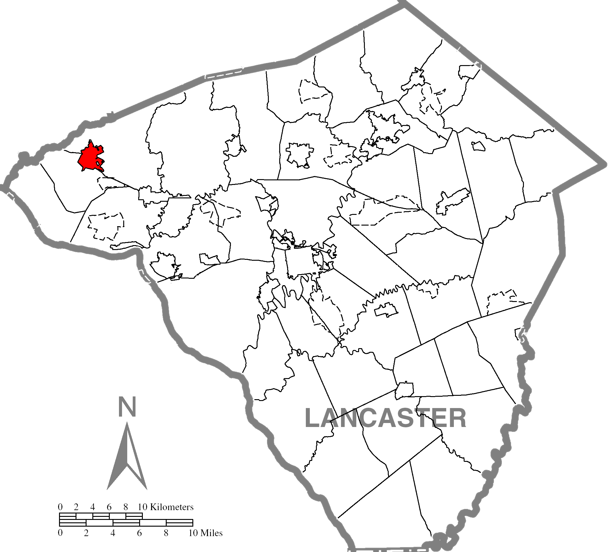 Highlighted Lancaster County map of Elizabethtown.